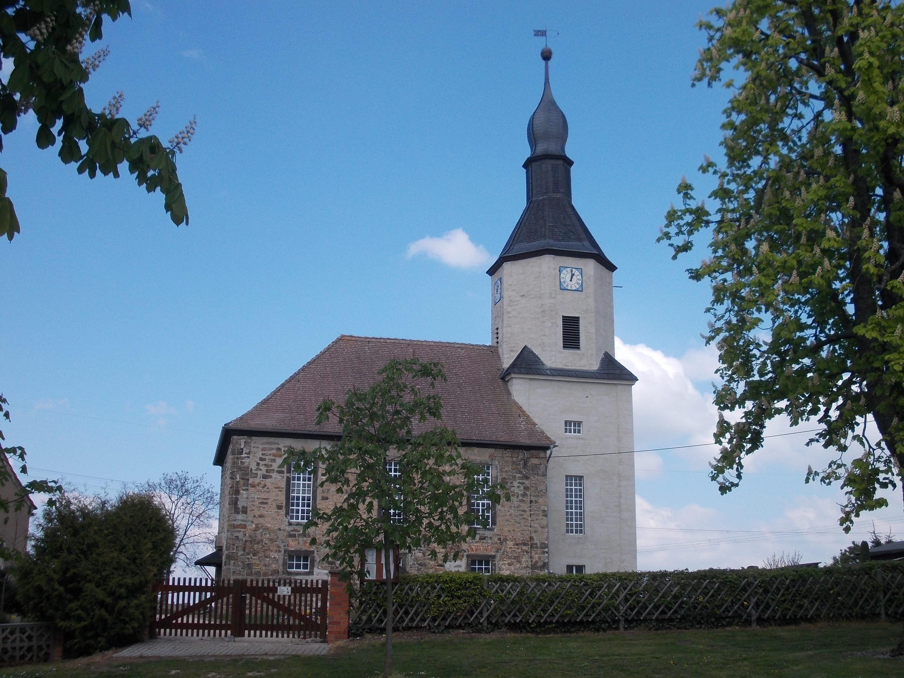 Grosshelmsdorf church (Heideland, district: Saale-Holzland-Kreis, Thuringia)